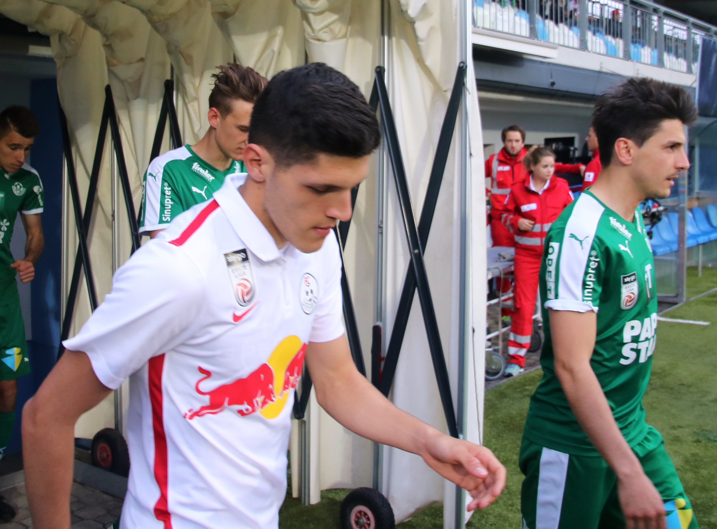 League match Austria 2nd league